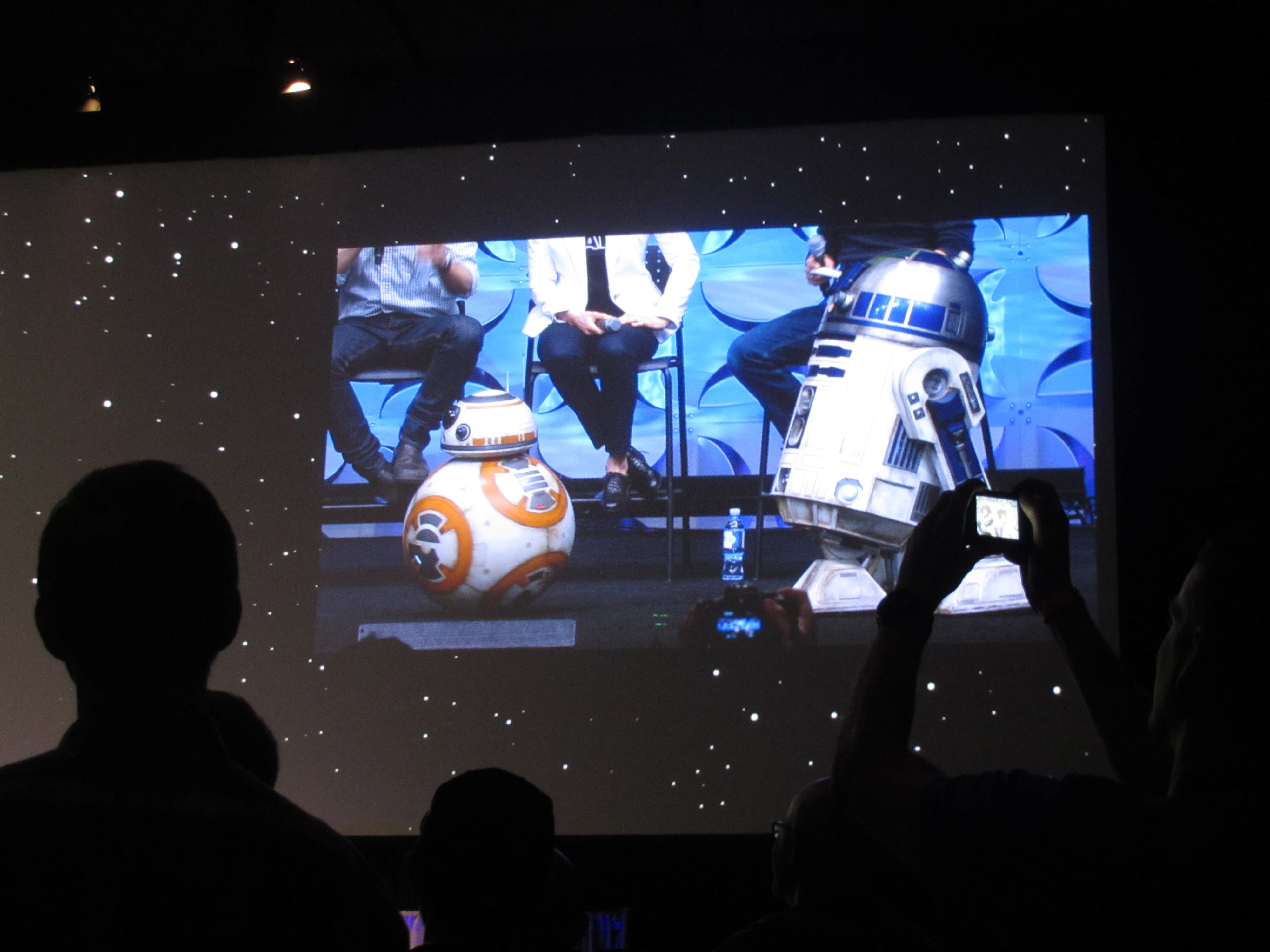 The Force Awakens panel at Celebration Anaheim Star Wars Celebration in Anaheim, April 2015.